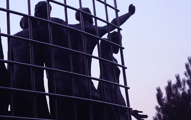 The ‘Indies Monument’ (Dutch:Indisch Monument) is a memorial in The Hague in memory of all citizens and soldiers killed during the Second World War as victims of the Japanese occupation (1941–1945) and Bersiap period in the former Dutch East Indies. It is dedicated to all who died in battle, in prison camps, duing forced labor and were murdered during the Bersiap atrocities.